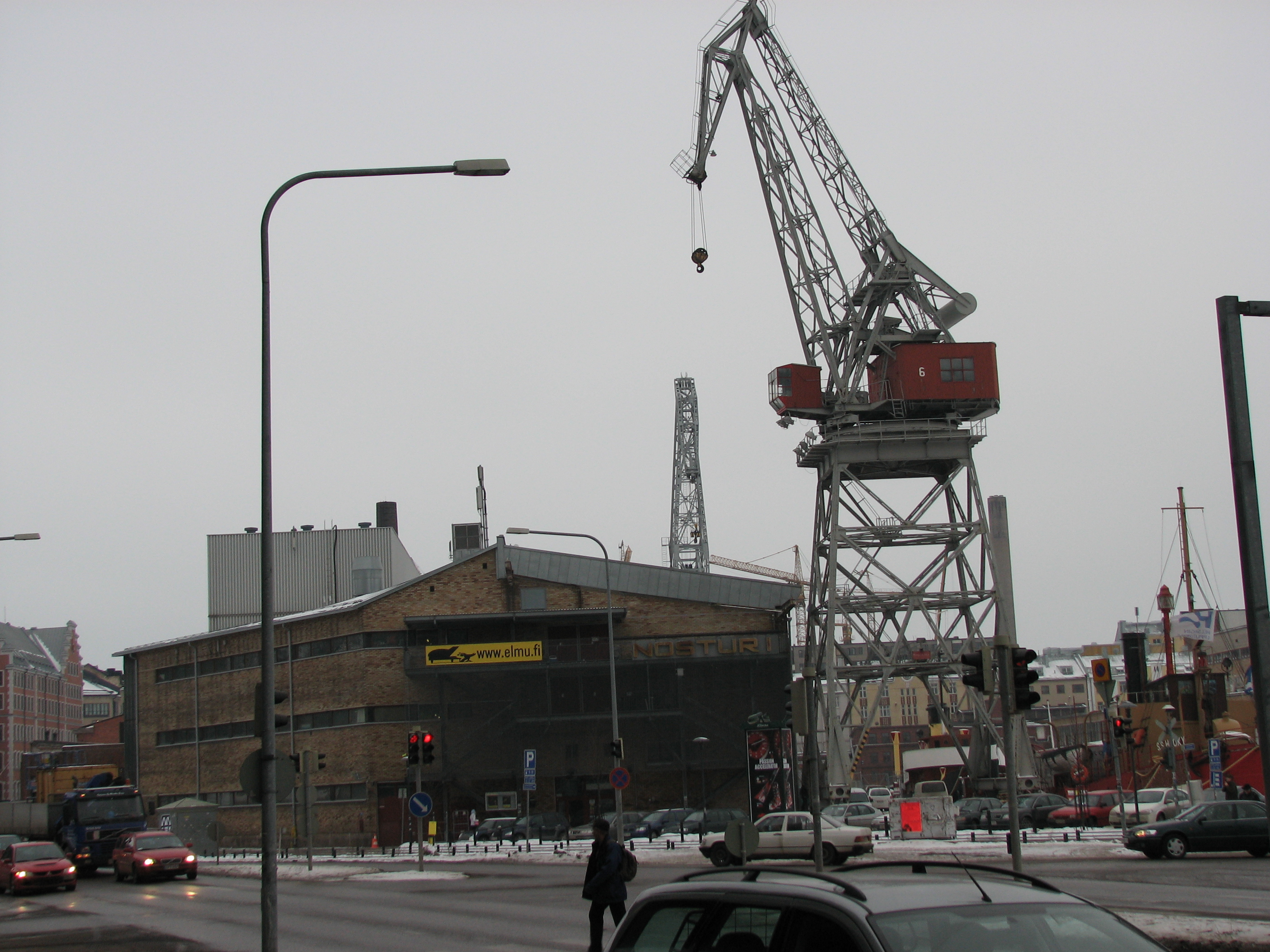 The Nosturi music hall and nightclub in Punavuori, Helsinki, seen from the outside in winter. The entrance to the hall is on the side of the warehouse facing the camera. You obviously do not have to climb up to the crane, even though the Finnish word "nosturi" means "crane". Photograph taken by me on February 16, 2007.